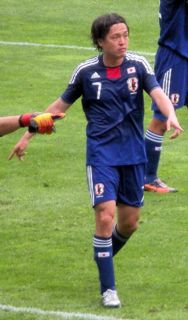 Yasuhito Endo, friendly between Japan and England in Graz (Austria) on 30 May 2010